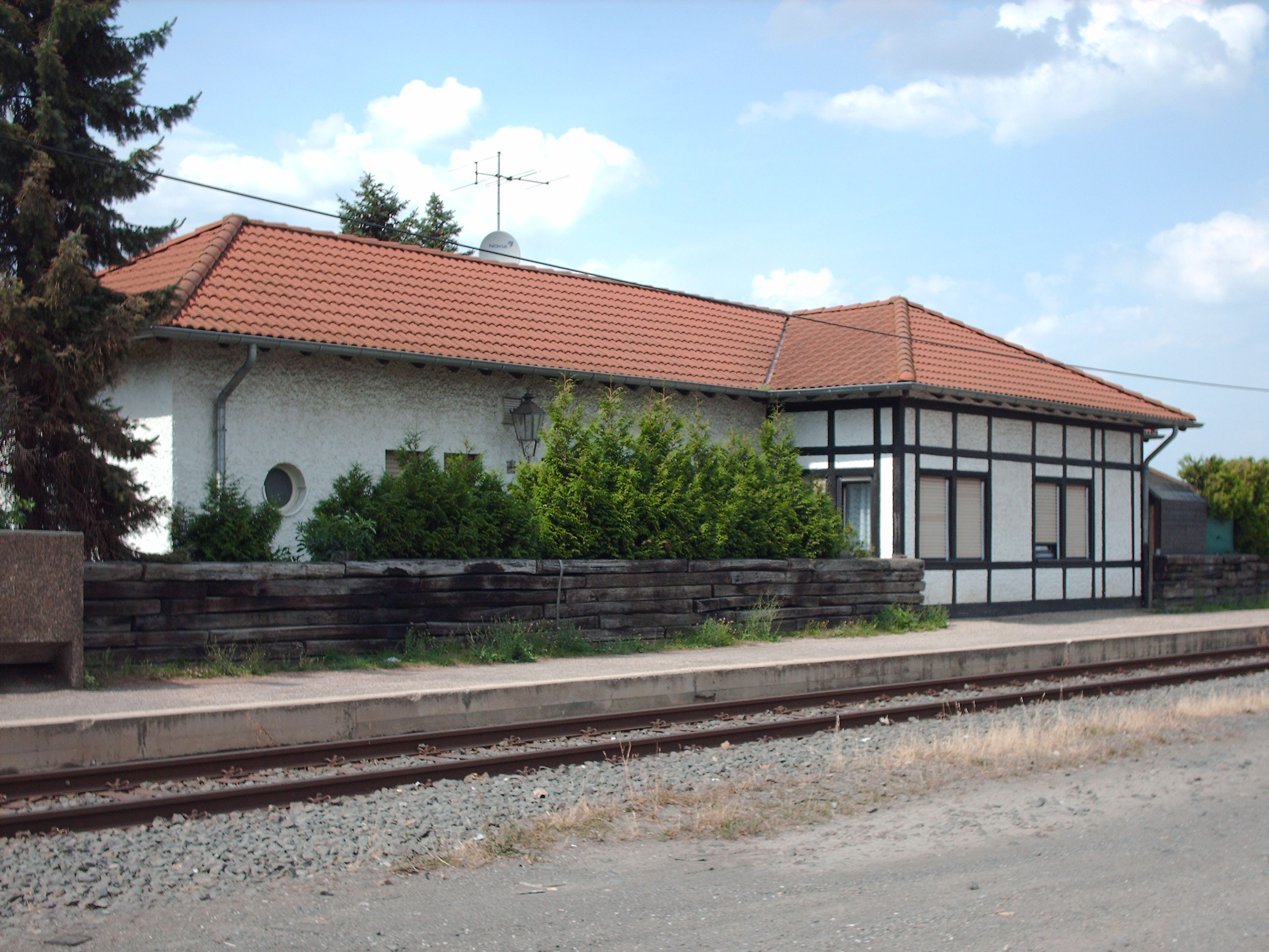 Arloff station, Bad Münstereifel, Germany check usage